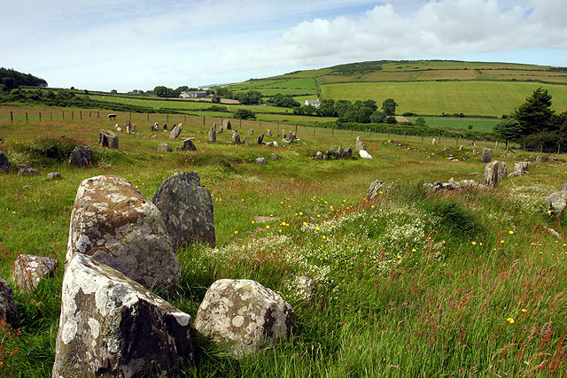 The Braaid